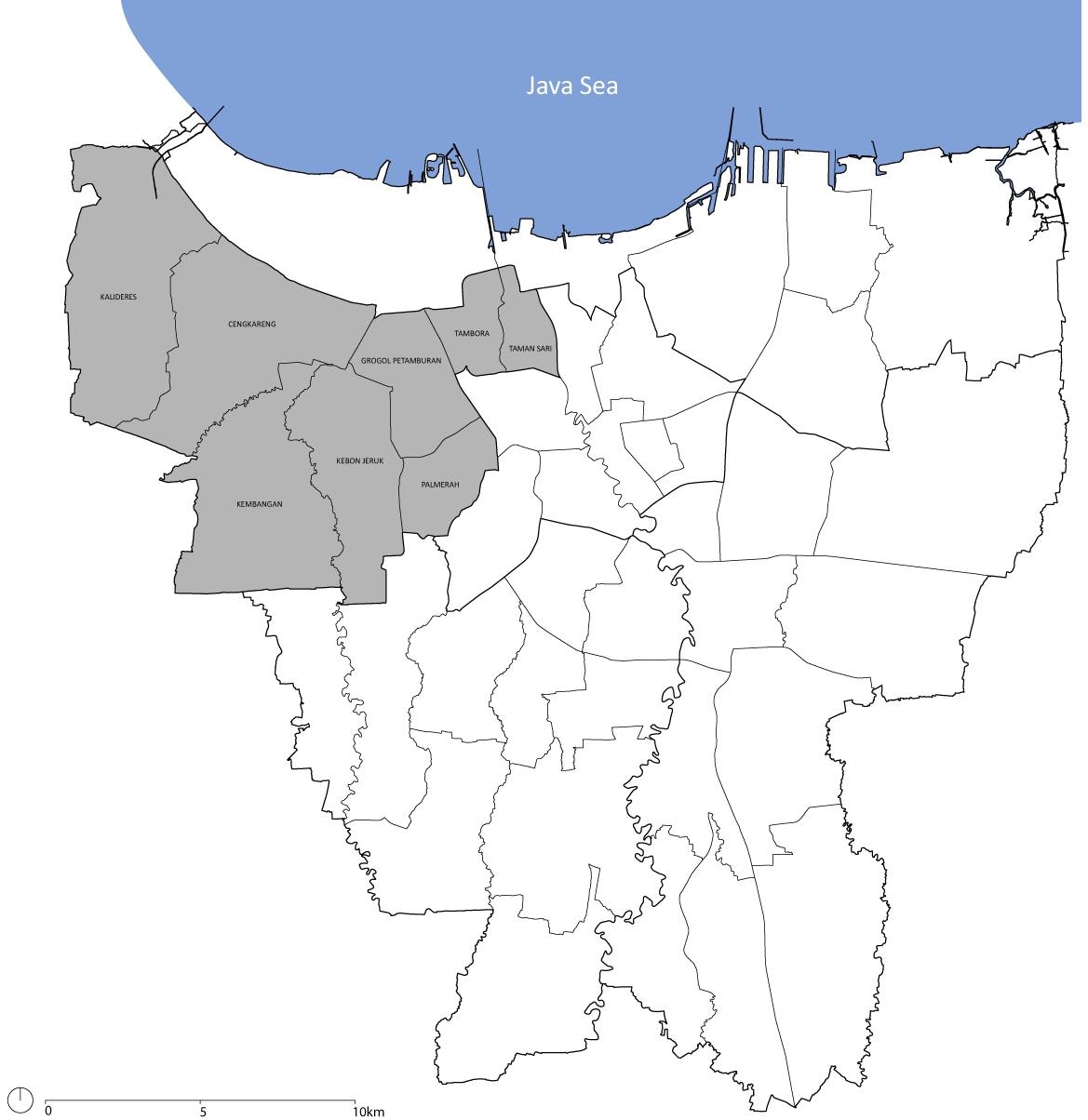 The City (Kota Administrasi) of West Jakarta (Jakarta Barat) divided into several subdistricts (Kecamatan).